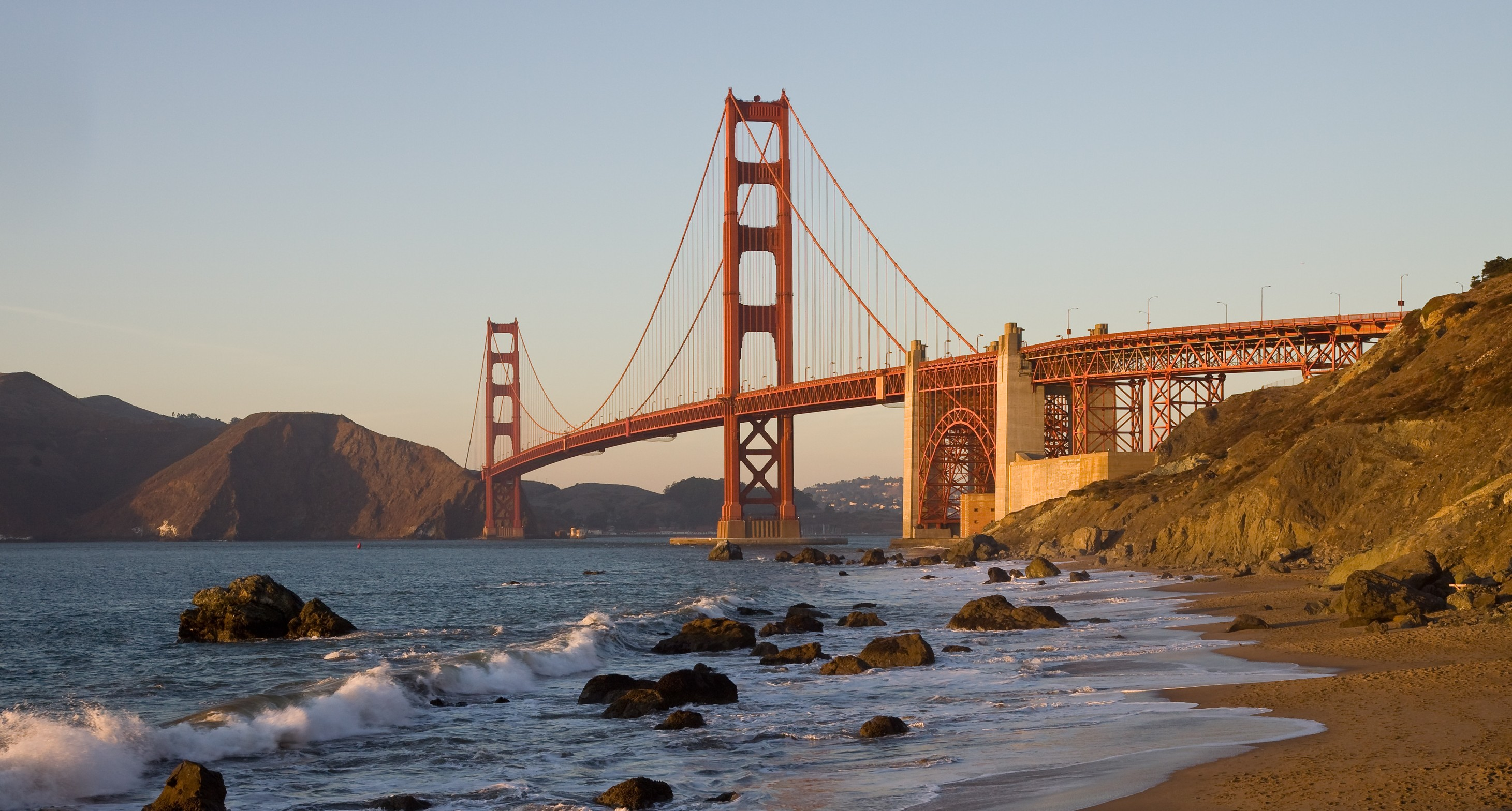 The Golden Gate Bridge in San Francisco as seen from the northern end of Baker Beach.